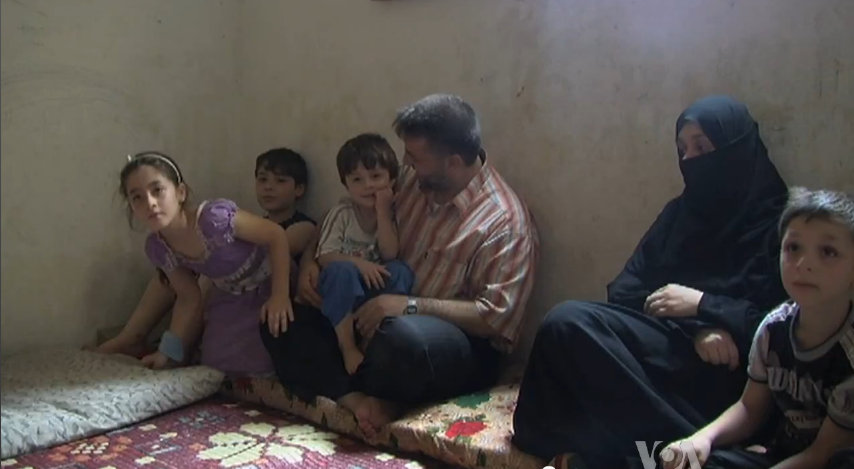 Syrian refugees in Lebanon staying in small cramped quarters.